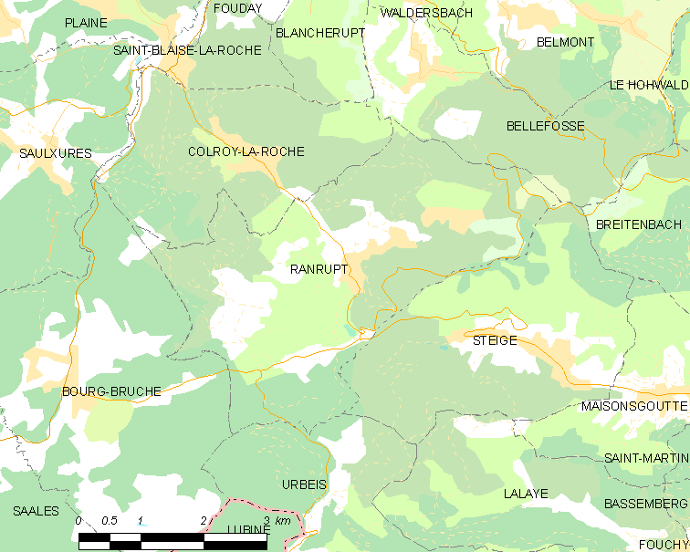 Map of French municipality